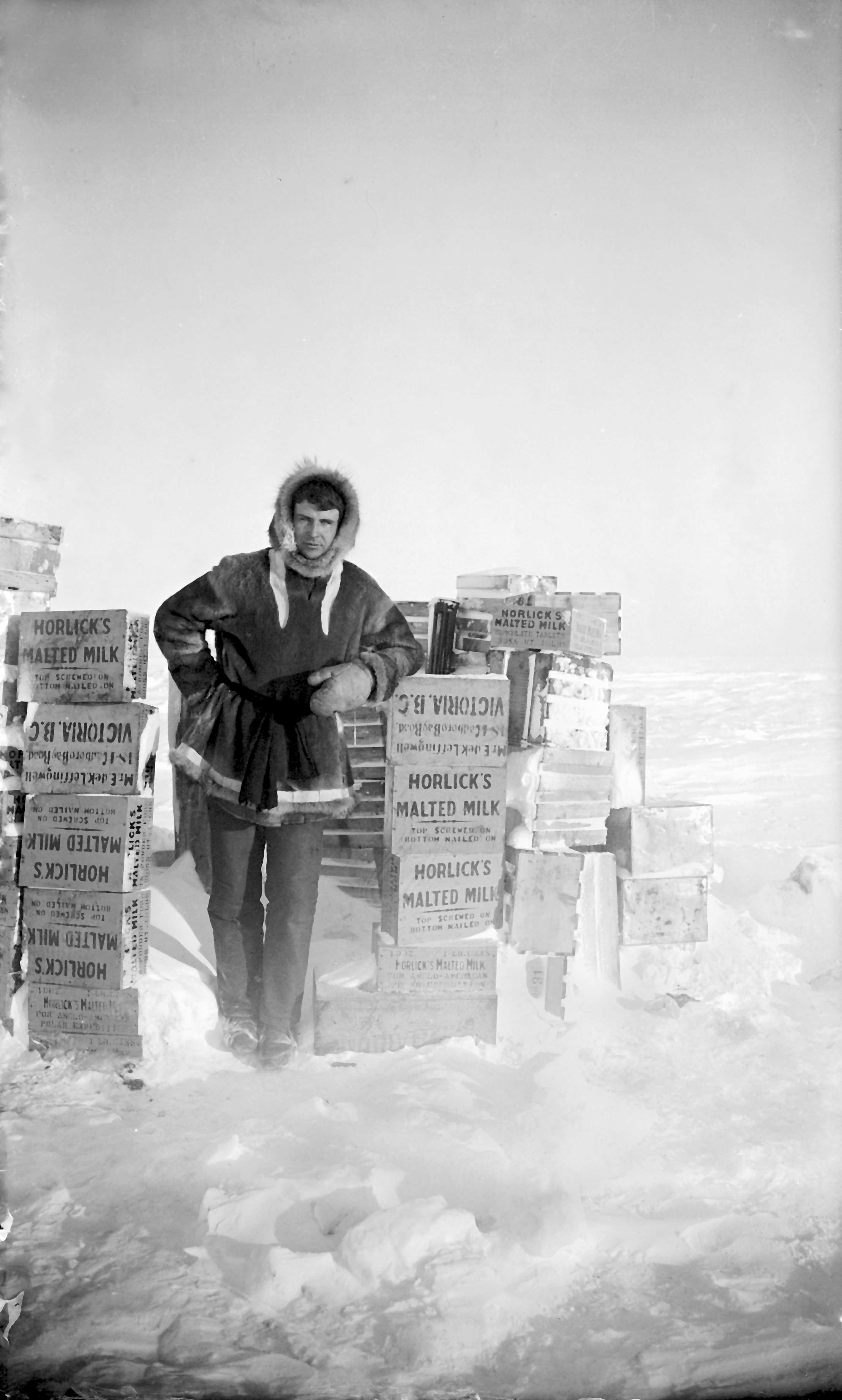 Ernest deKoven Leffingwell at Astronomical Observatory Flaxman Island. Anglo- American Polar Expedition. Canning district, Northern Alaska region, Alaska. The crates of malted milk were donated by Horlick's; the expedition evaluated it both instead of and in alternation with Pemmican. Leffingwell was the same age as William Horlick, Jr, and both attended the grammar school at Racine College.